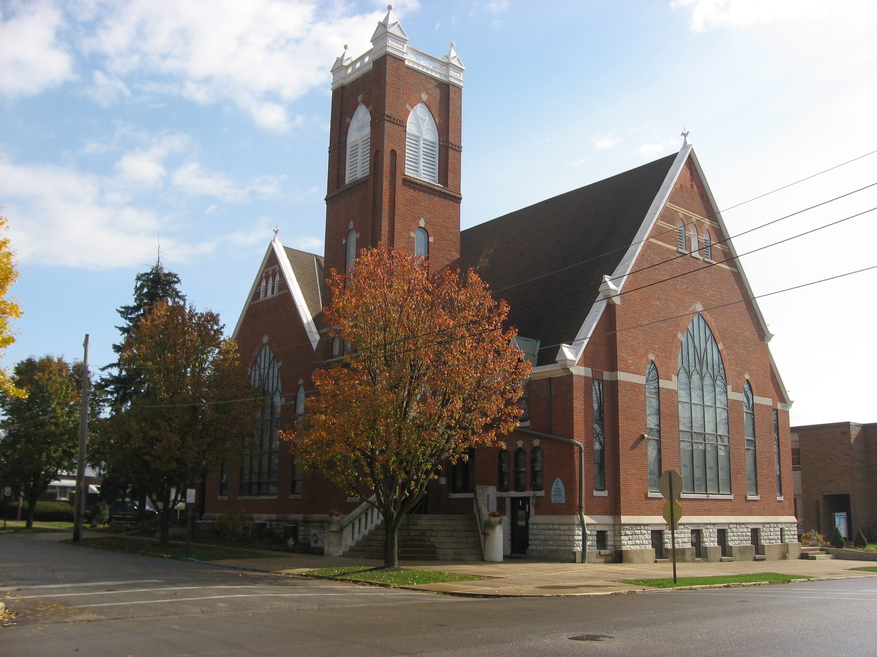 Front and western side of St. Paul Methodist Episcopal Church, located at 426 N. Morgan Street in Rushville, Indiana, United States. Built in 1887, it is listed on the National Register of Historic Places.